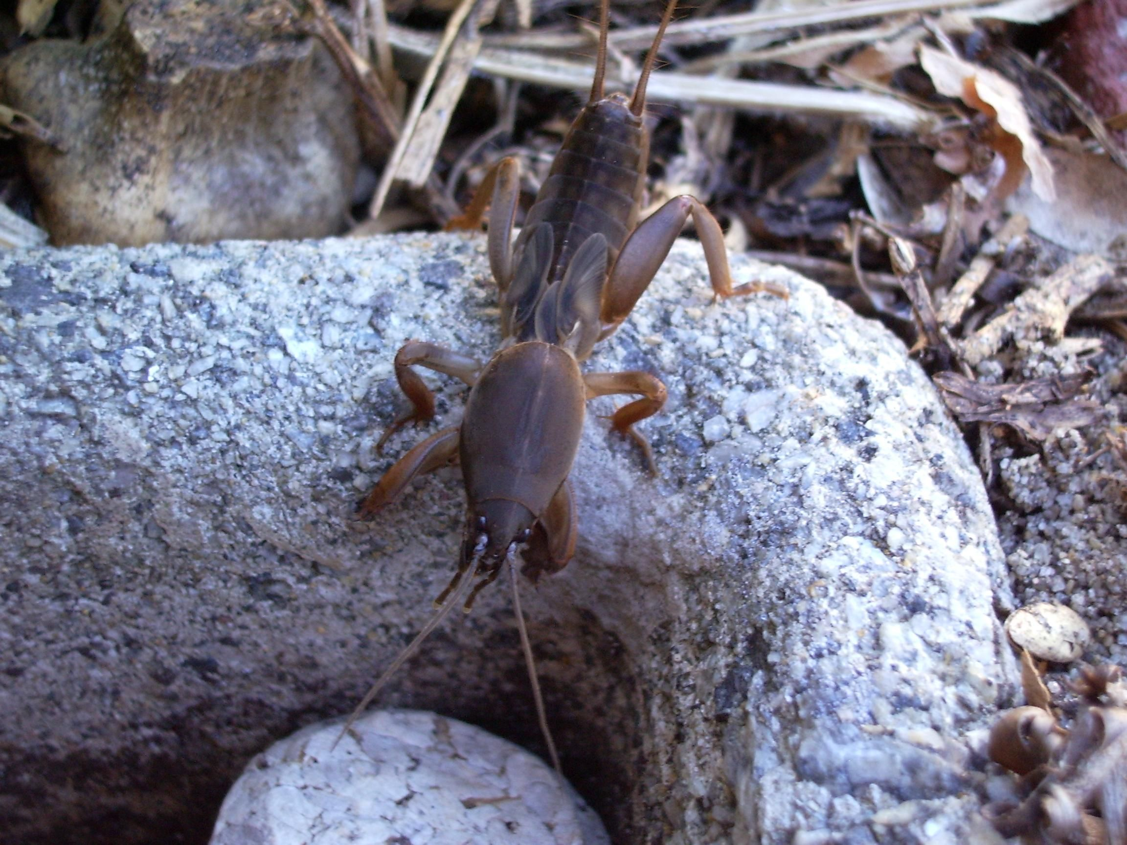 Image title: Mole cricket gryllotalpa brachyptera Image from Public domain images website